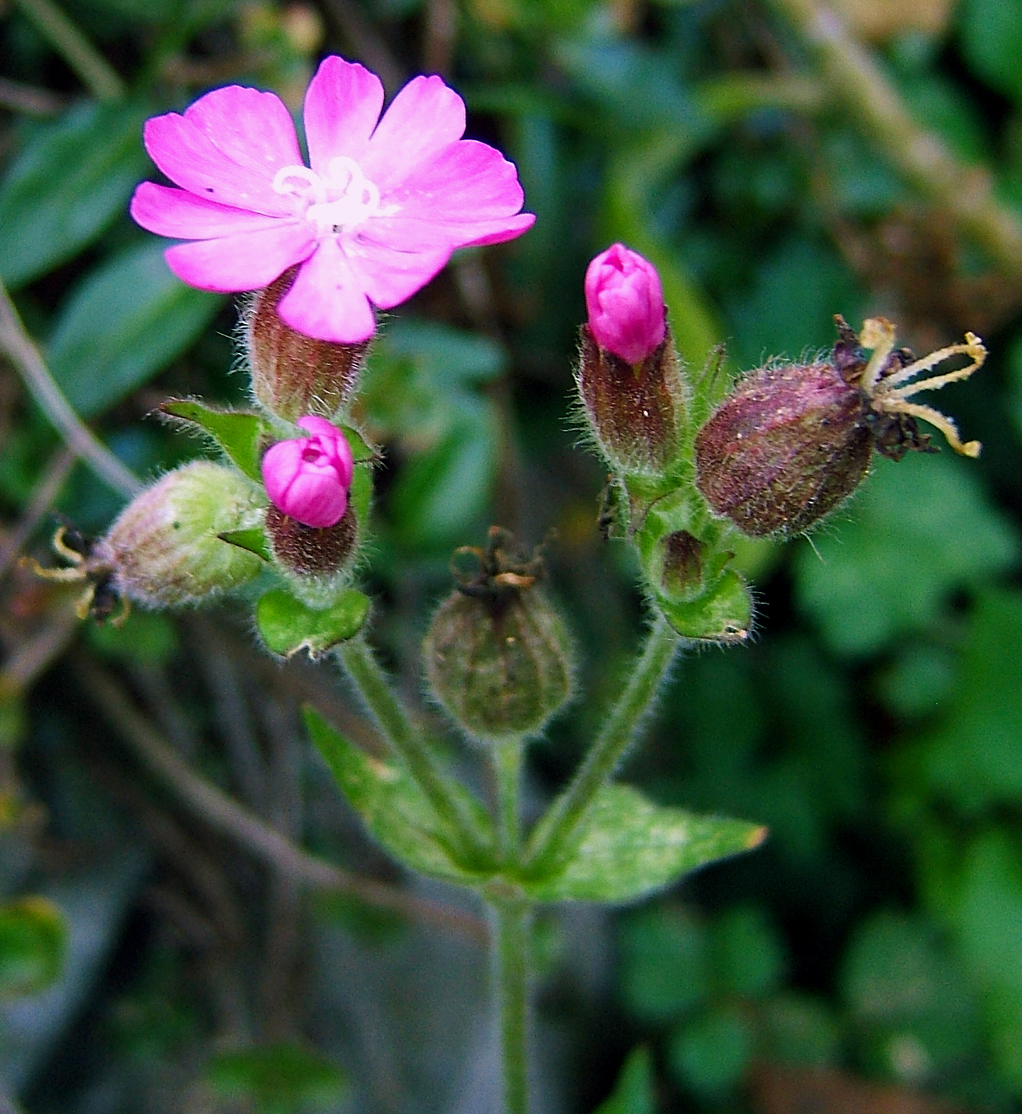 Red Campion